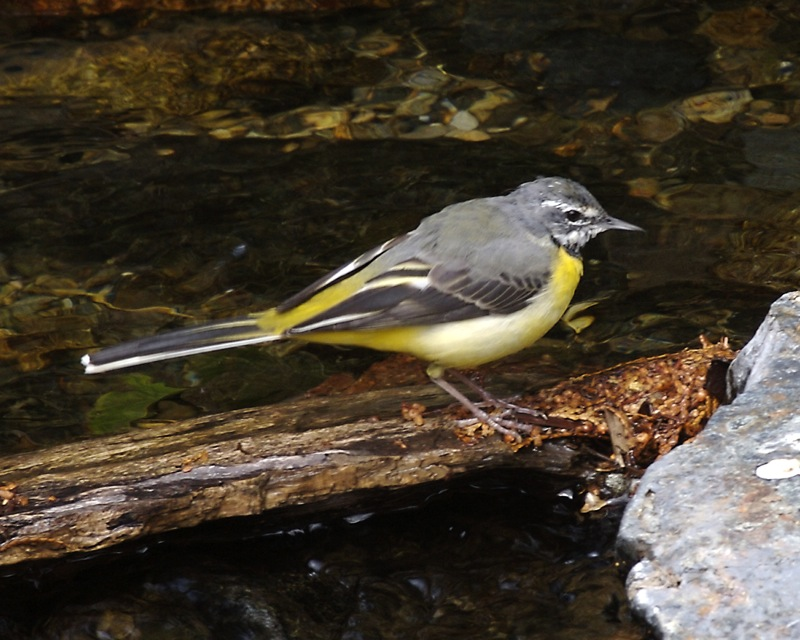 Grey Wagtail Motacilla cinerea robusta, Mino-shi, Osaka Prefecture, Japan.